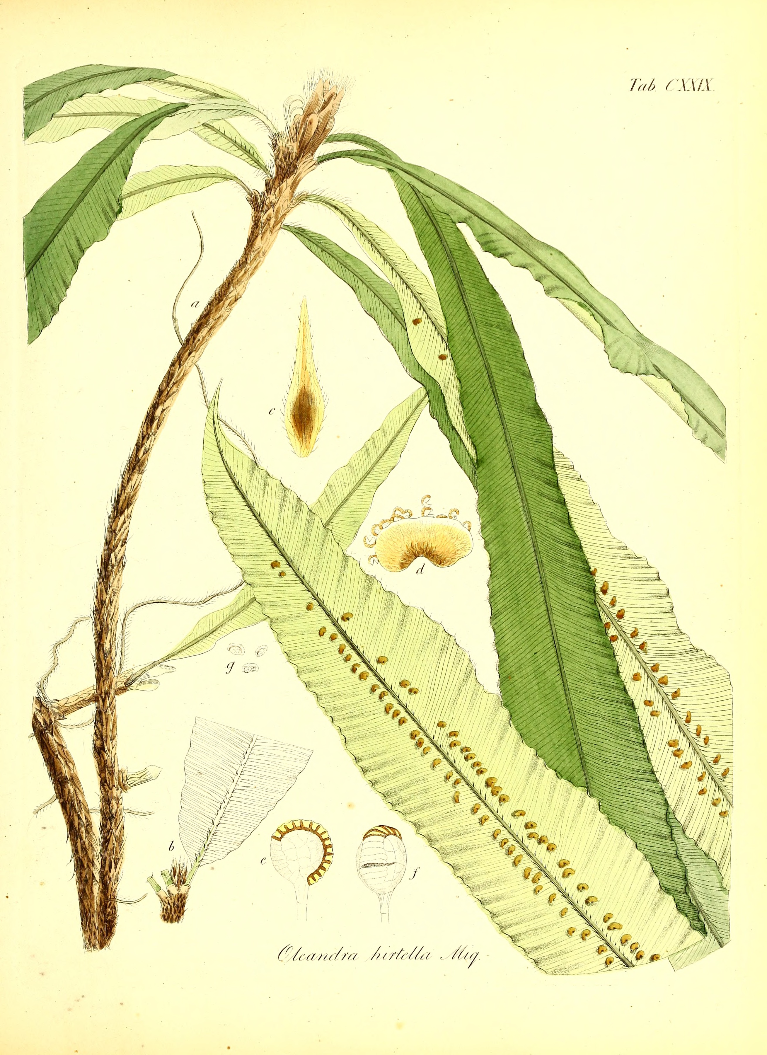 Title: Die Farrnkräuter in kolorirten Abbildungen naturgetreu Erläutert und Beschrieben Year: 1840 (1840s) Authors: Kunze, Gustav, 1793-1851 Subjects: Ferns Publisher: Leipzig, E. Fleischer Text Appearing Before Image: ' Text Appearing After Image: '